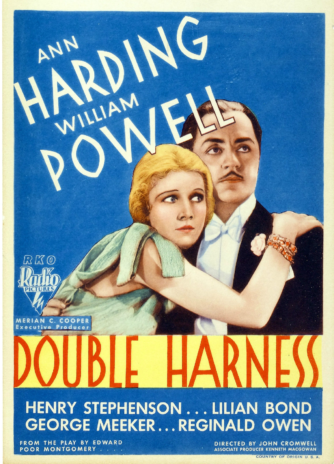 Poster for the 1933 filmDouble Harness. There are no copyright marks. At bottom right is Country of origin USA.